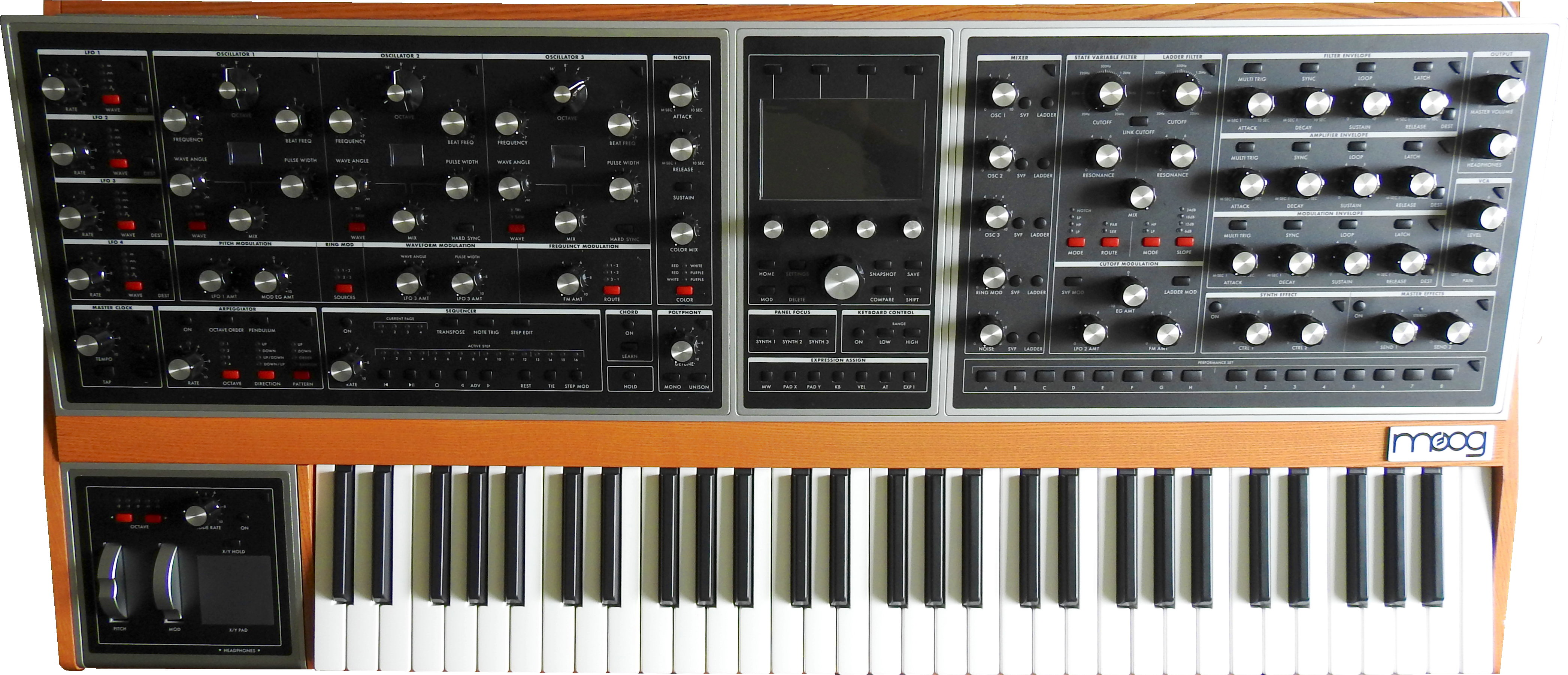 Moog One Synthesizer